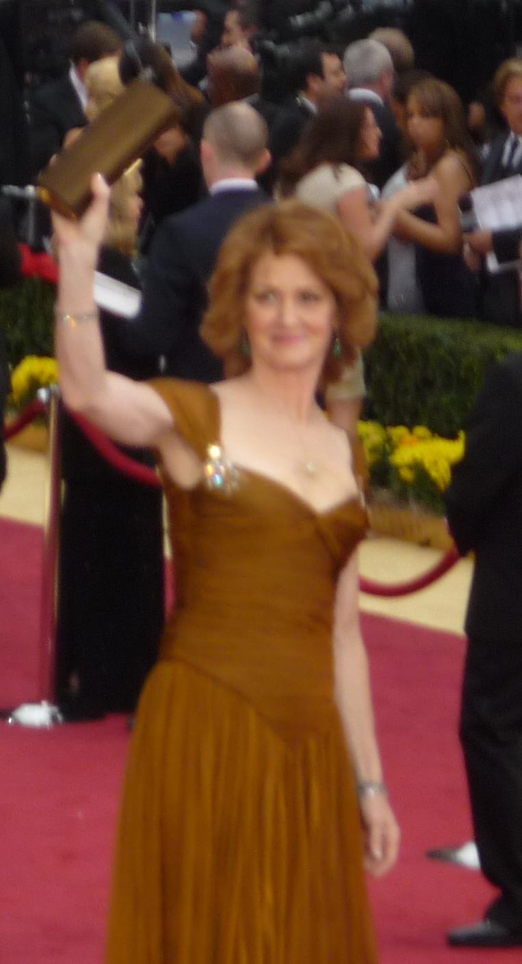 Actress Melissa Leo, nominated for "Frozen River" at 81st Annual Academy Awards.